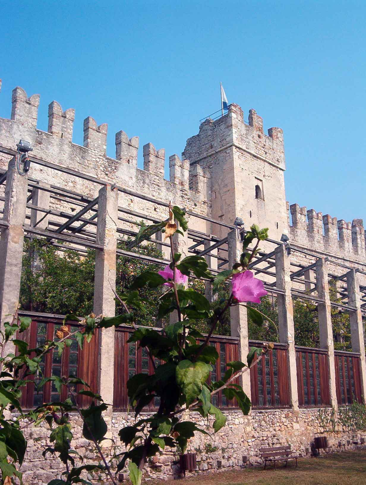 Torri del Benaco, Veneto, Italy Please send reference and voucher copy to BMK(at)clever.ms Bitte Quellenangabe und Beleg an BMK(at)clever.ms